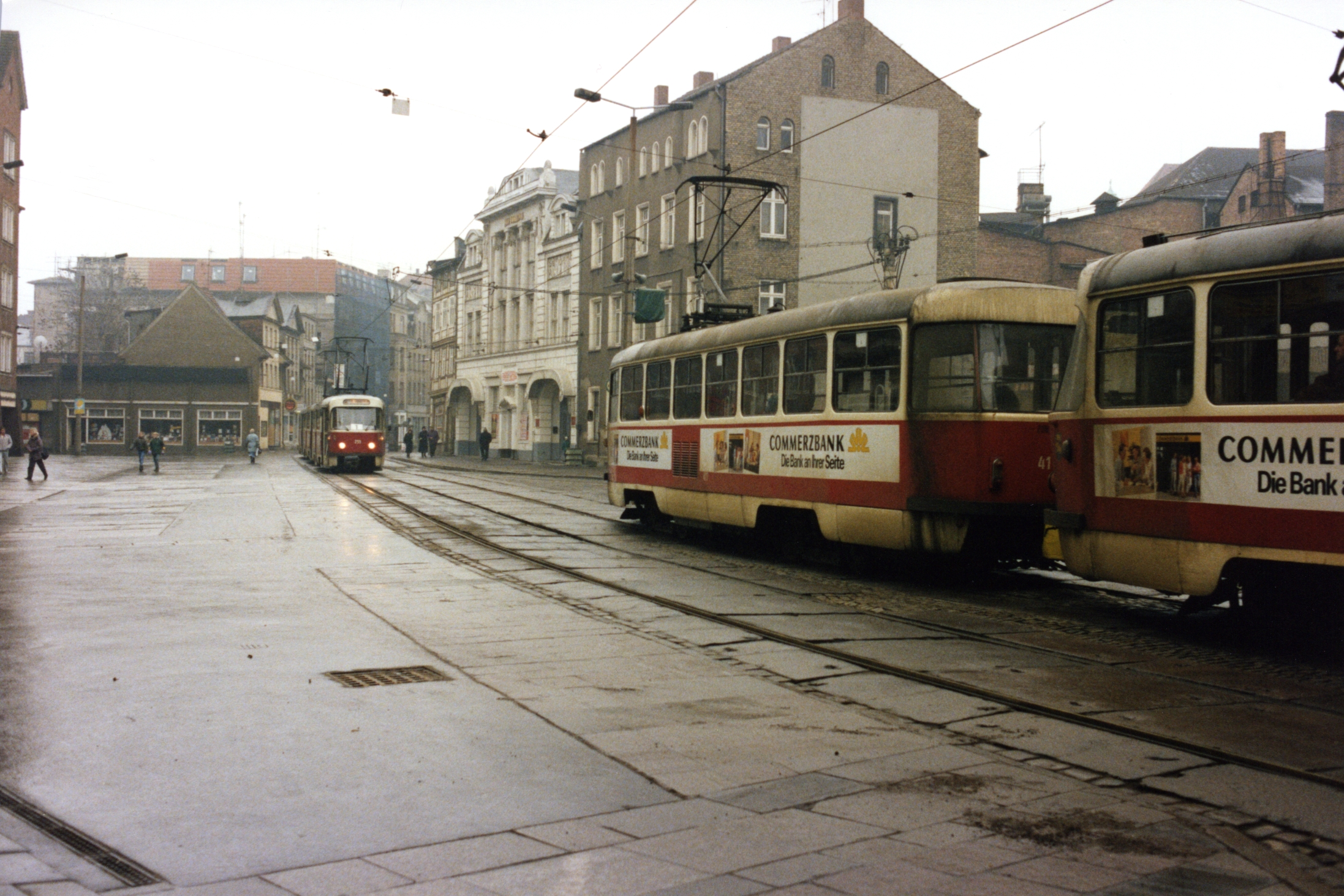 Schwerin Marienplatz